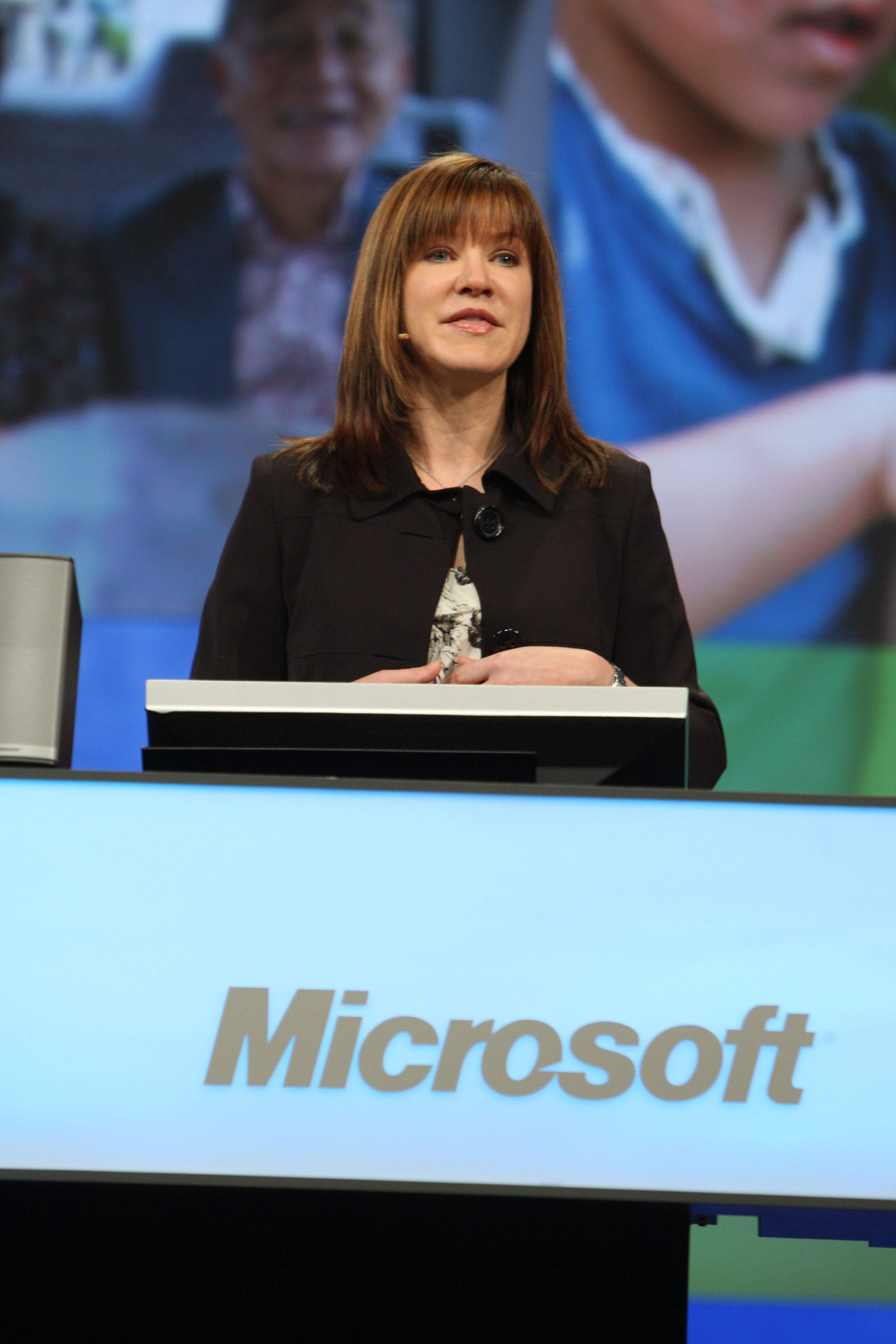 Photo of Julie Larson-Green in charge of Windows Division.